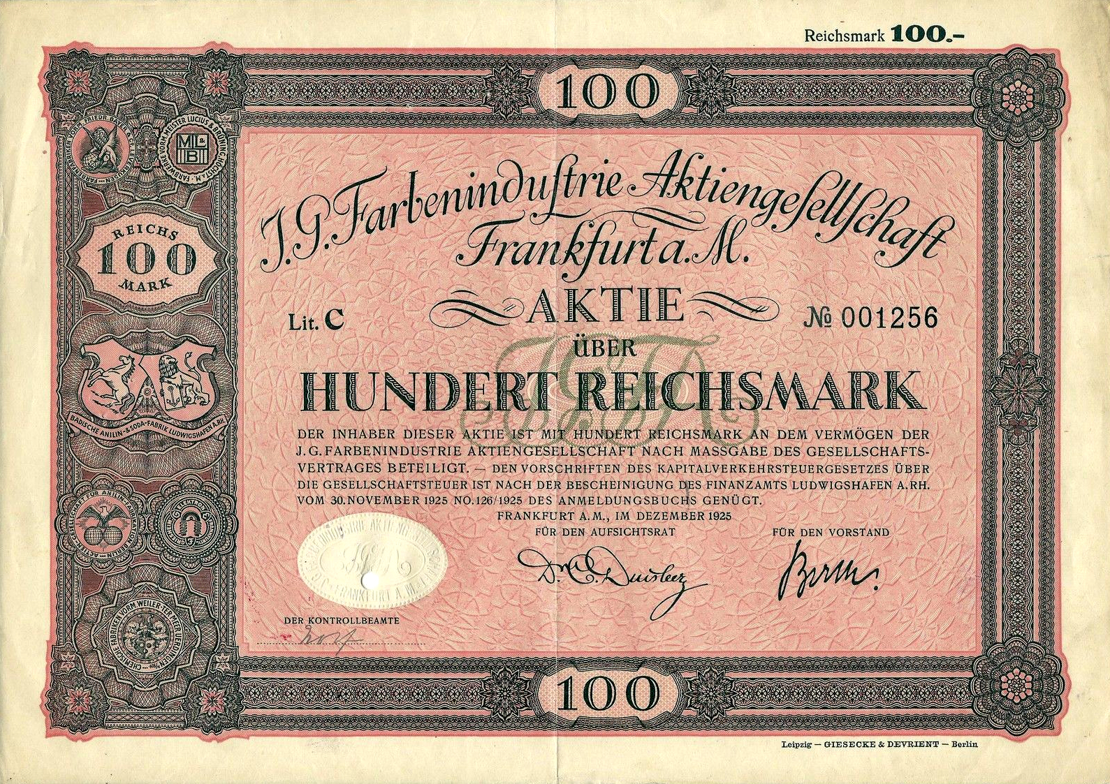 Share certificate from IG Farben